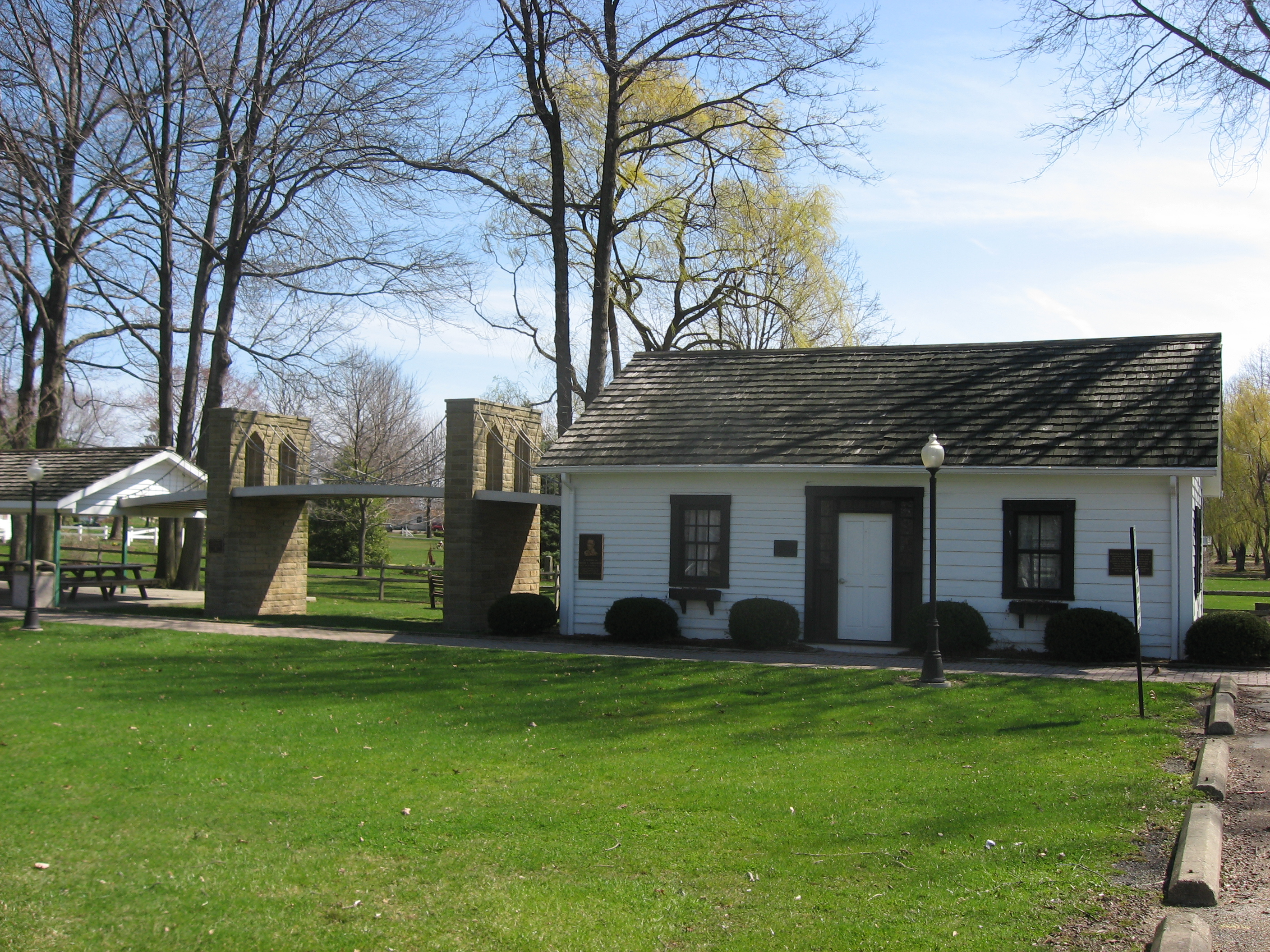 Front of the John Roebling Shop in Saxonburg, Butler County, Pennsylvania, United States. Formerly located at the intersection of Rebecca and Main Streets, it has been moved north to Roebling Park, along Rebecca Street. Notice the replica of the Brooklyn Bridge, which Roebling designed, to the left of the house. Built in 1835, the house is listed on the National Register of Historic Places.